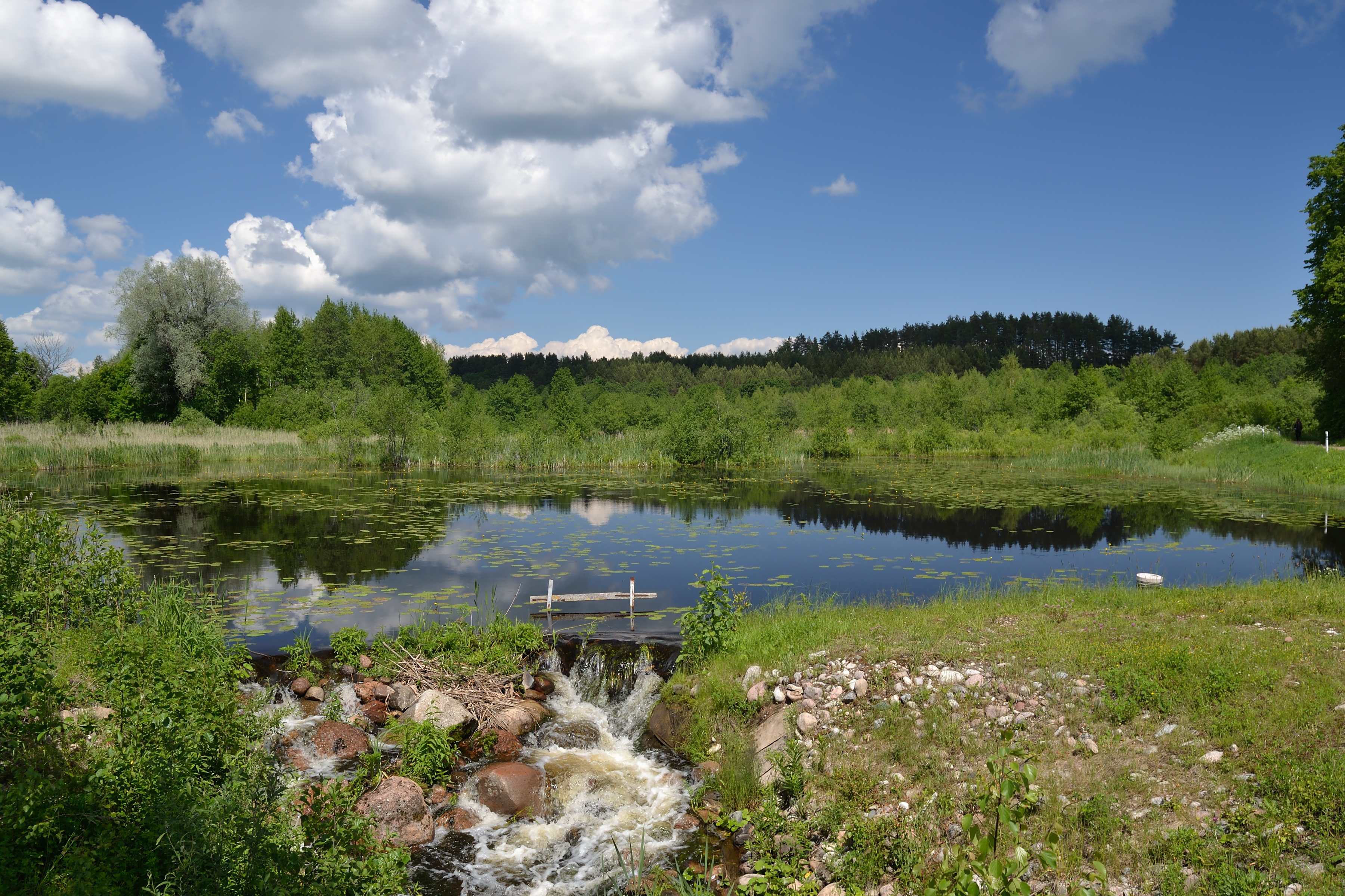 Savastvere impounded mill lake on Alatskivi river (surface area ca 2 ha)